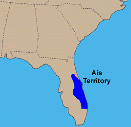 Ais Indian Territory map.